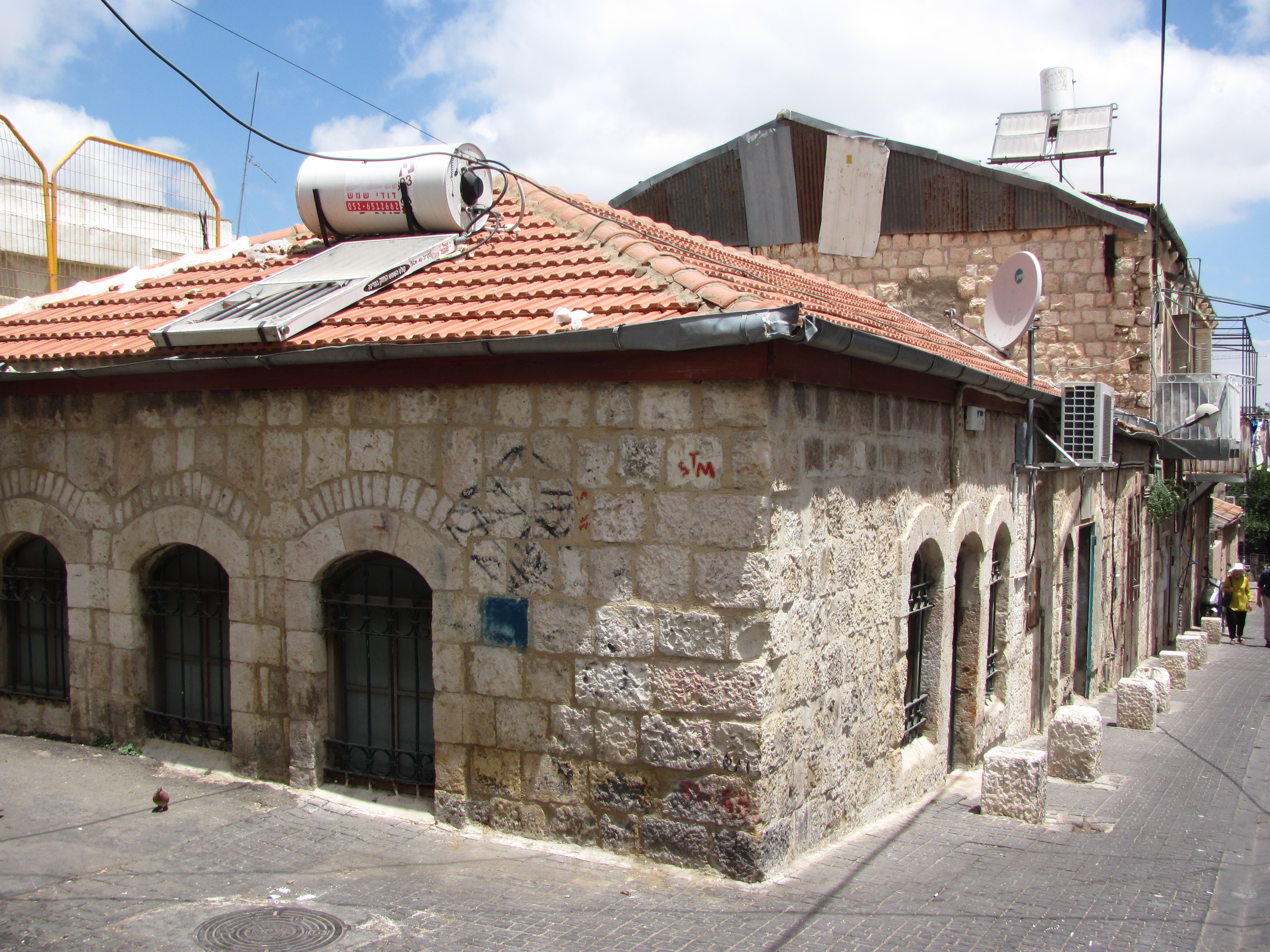 Original building in the historic Mahane Yehuda neighborhood, Jerusalem, Israel.